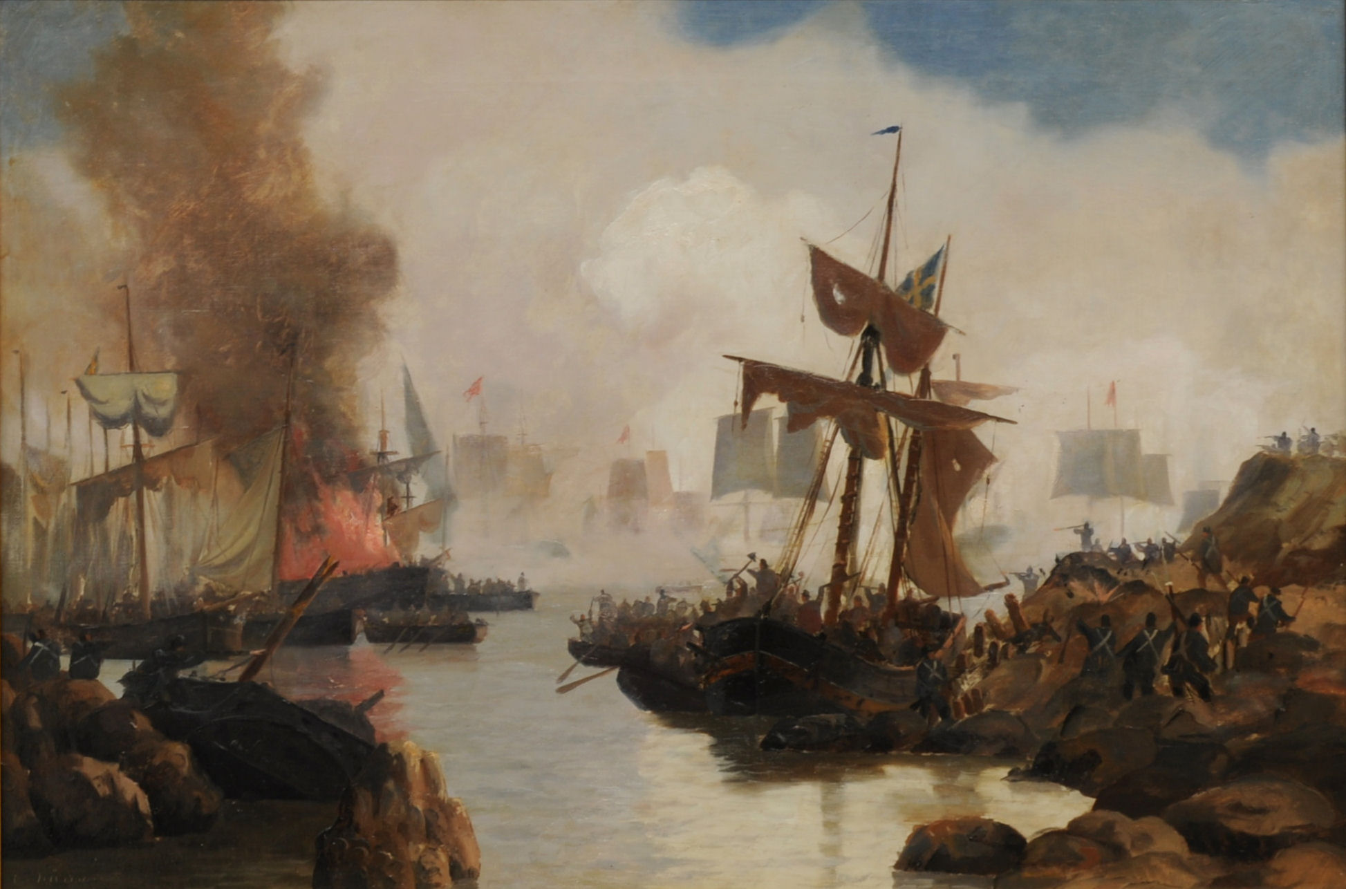 Peter Wessel Tordenskiold in the battle of Dynekilen, 1716